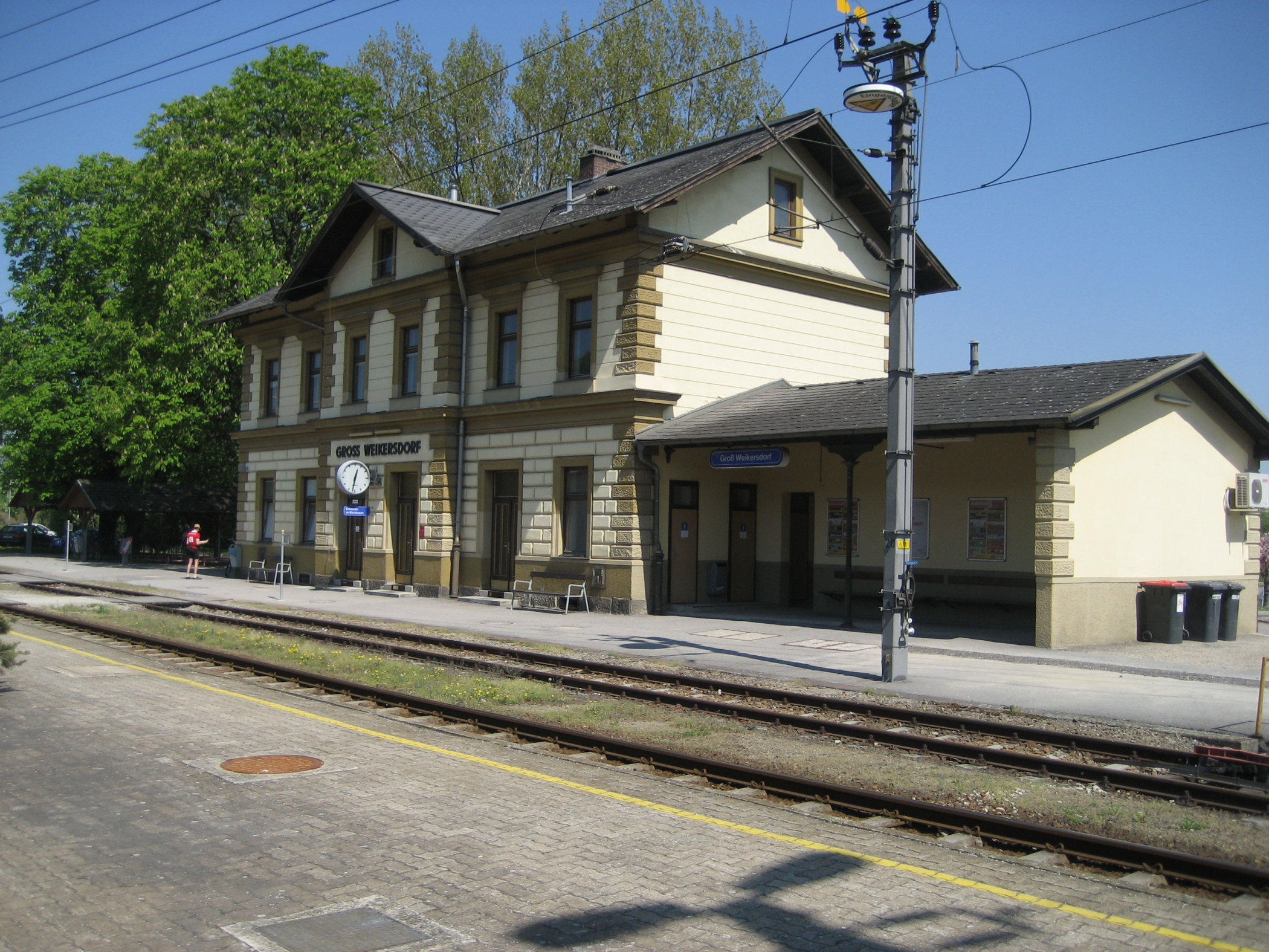 Großweikersdorf train station in Lower Austria